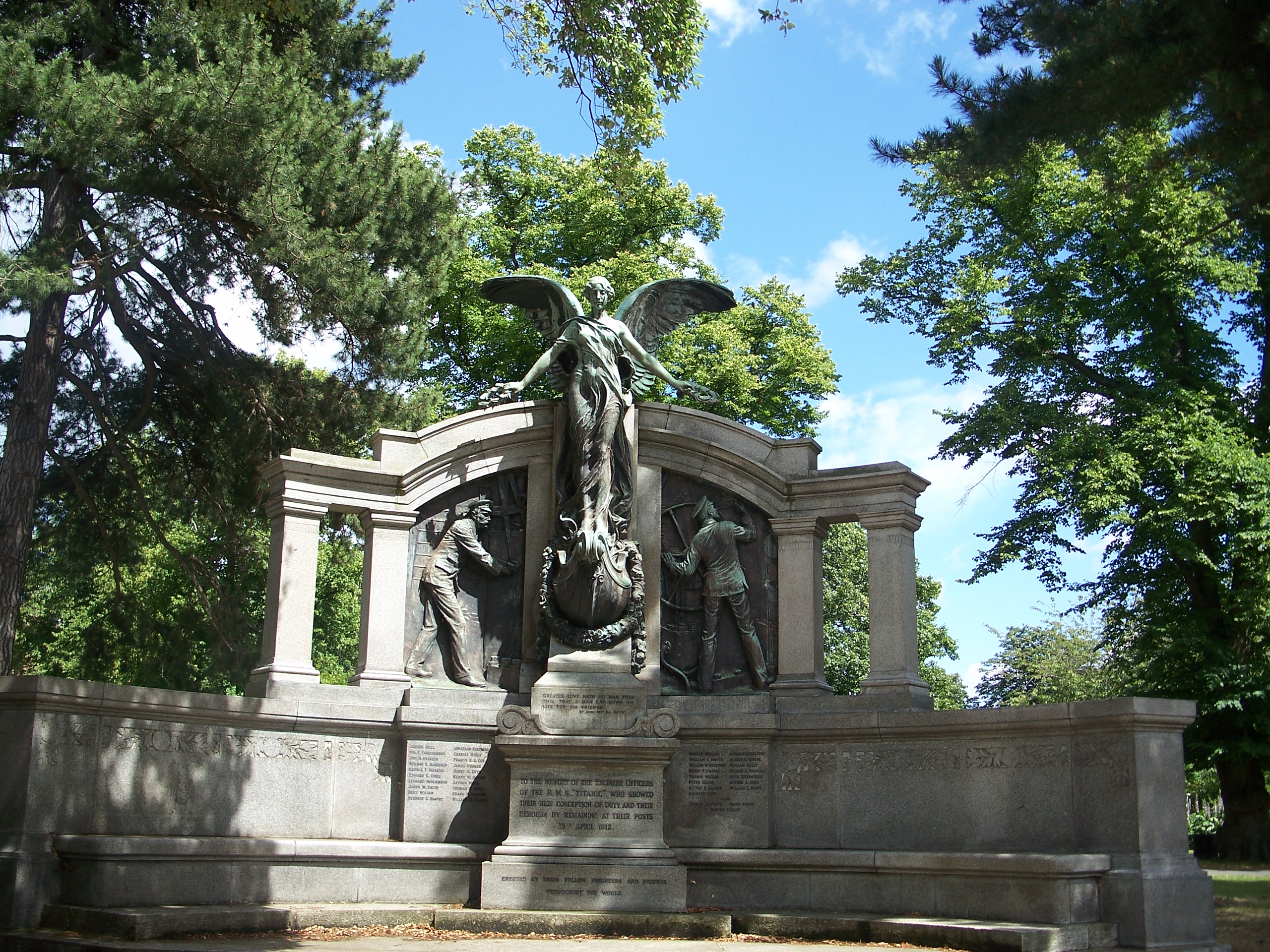 Engineering Officers of the Titanic Memorial, Southampton, Hampshire, England